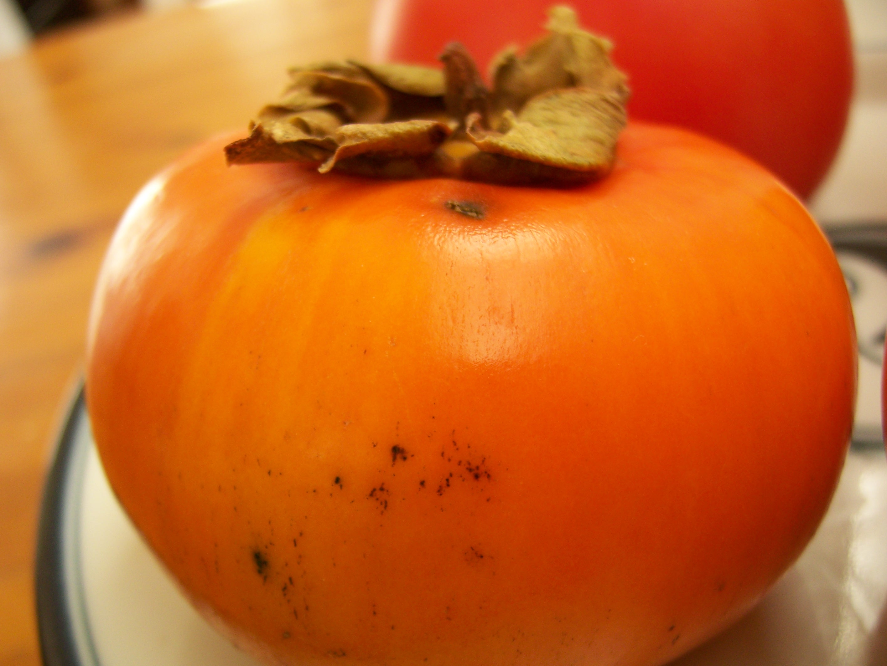 Persimmon fruit. This particular persimon fruit in the picture is grown in Santa Clara, California from our backyard. Though there are many other grown around here too =)